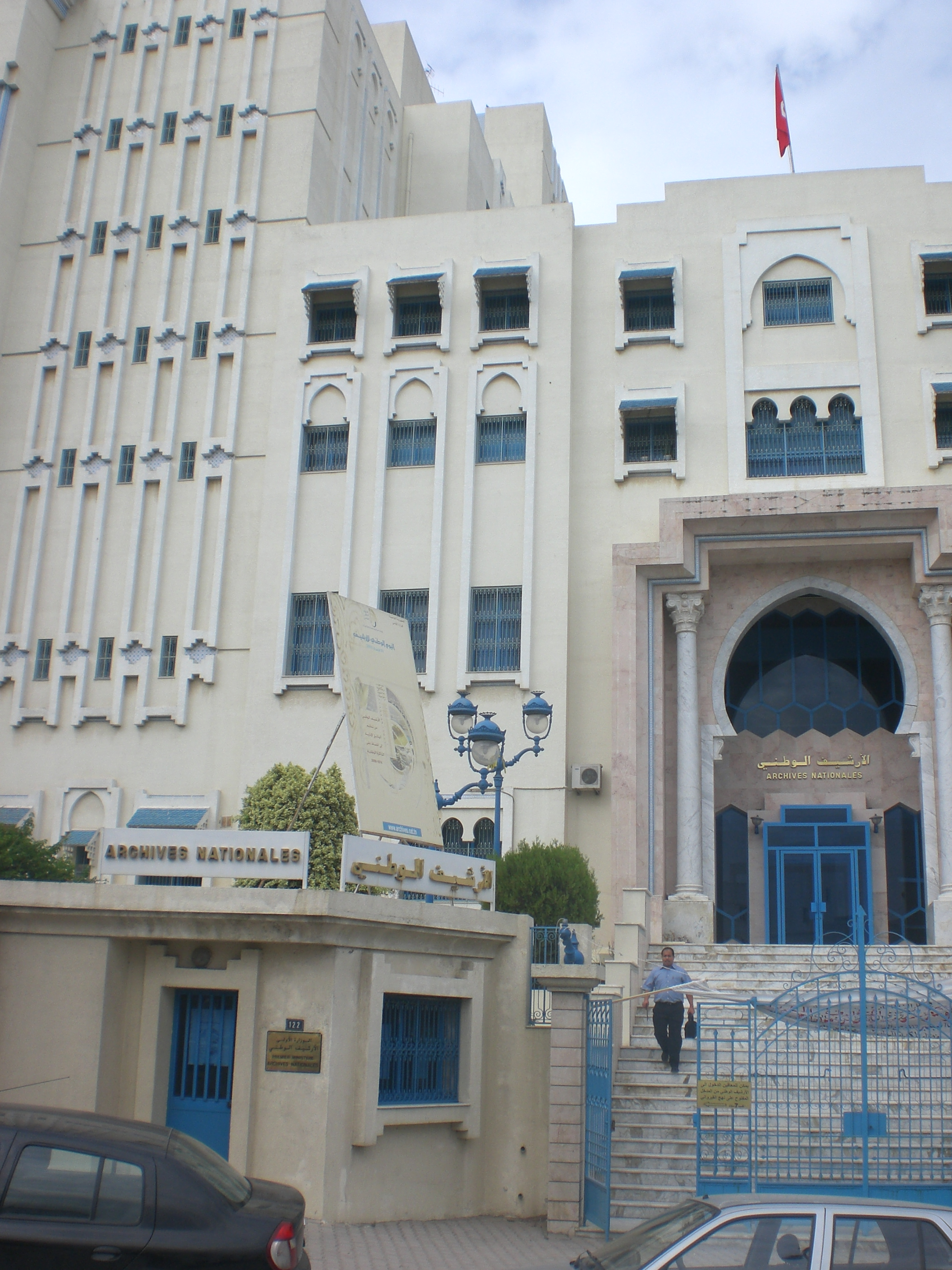 The National Archives of Tunisia